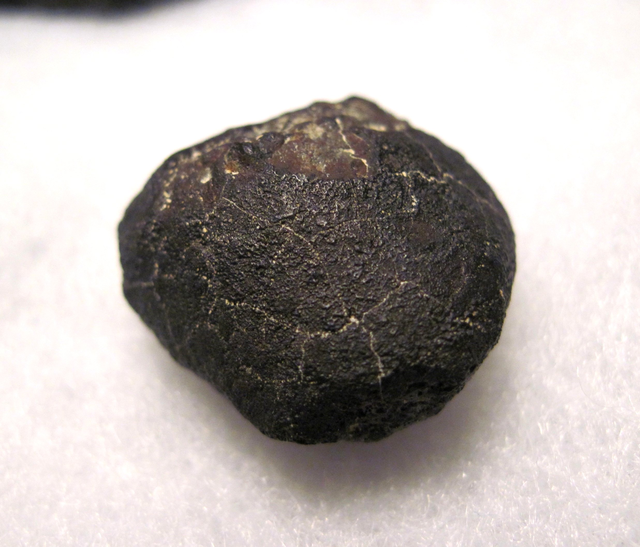 Allende meteorite, fresh crusted individual. It was almost certainly recovered shortly after the fall occurred on Feb 8th 1969, in Chihuahua, Mexico. This meteorite is classified as a CV3 (Vigarano group, type 3) carbonaceous chondrite. Specimen weighs 5 grams. Note the contraction cracks in the fusion crust which formed when the stone rapidly cooled during it's descent through the atmosphere.